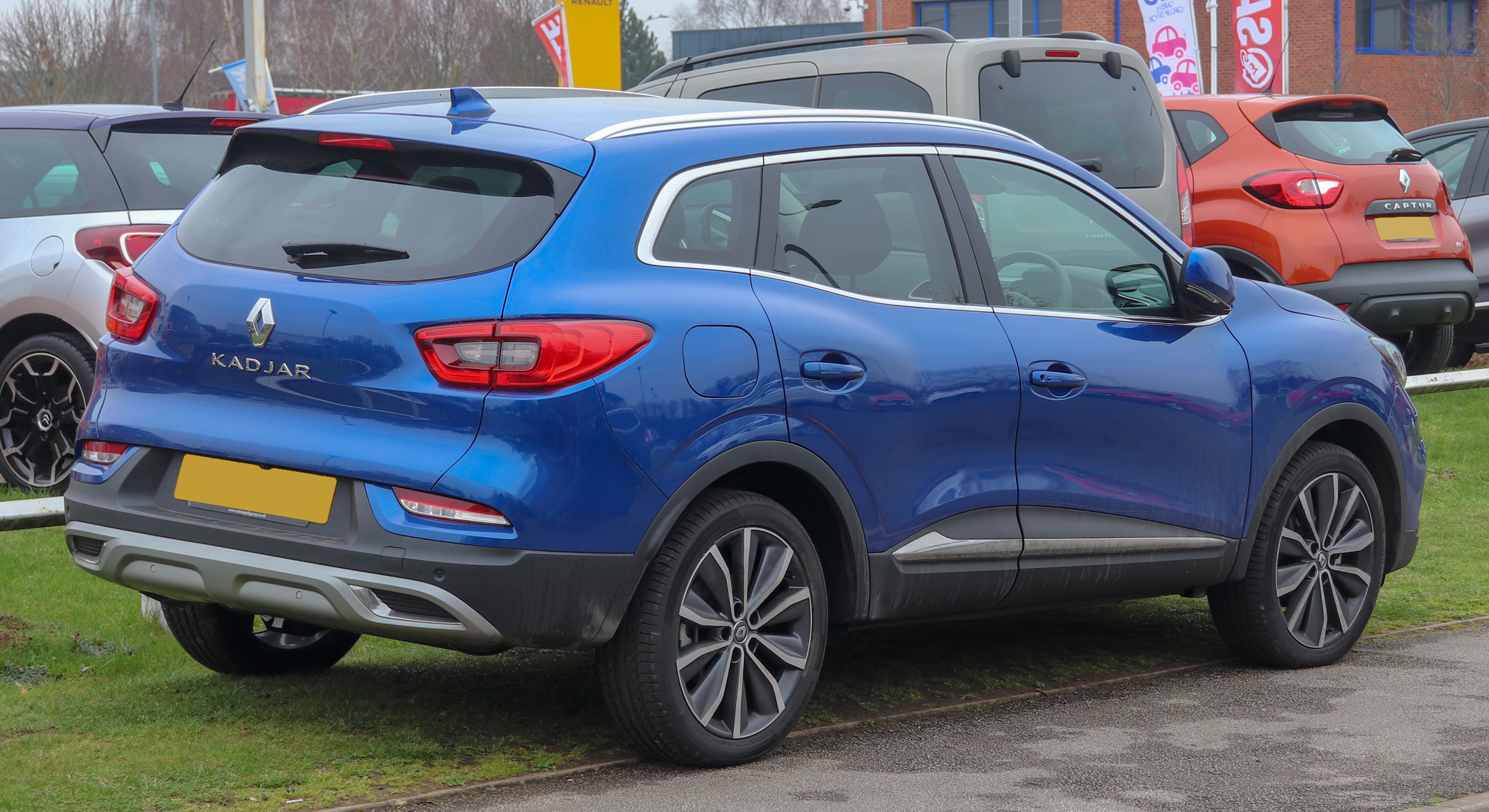 2018 Renault Kadjar S Edition TCE 1.3 Rear Taken in Leamington Spa